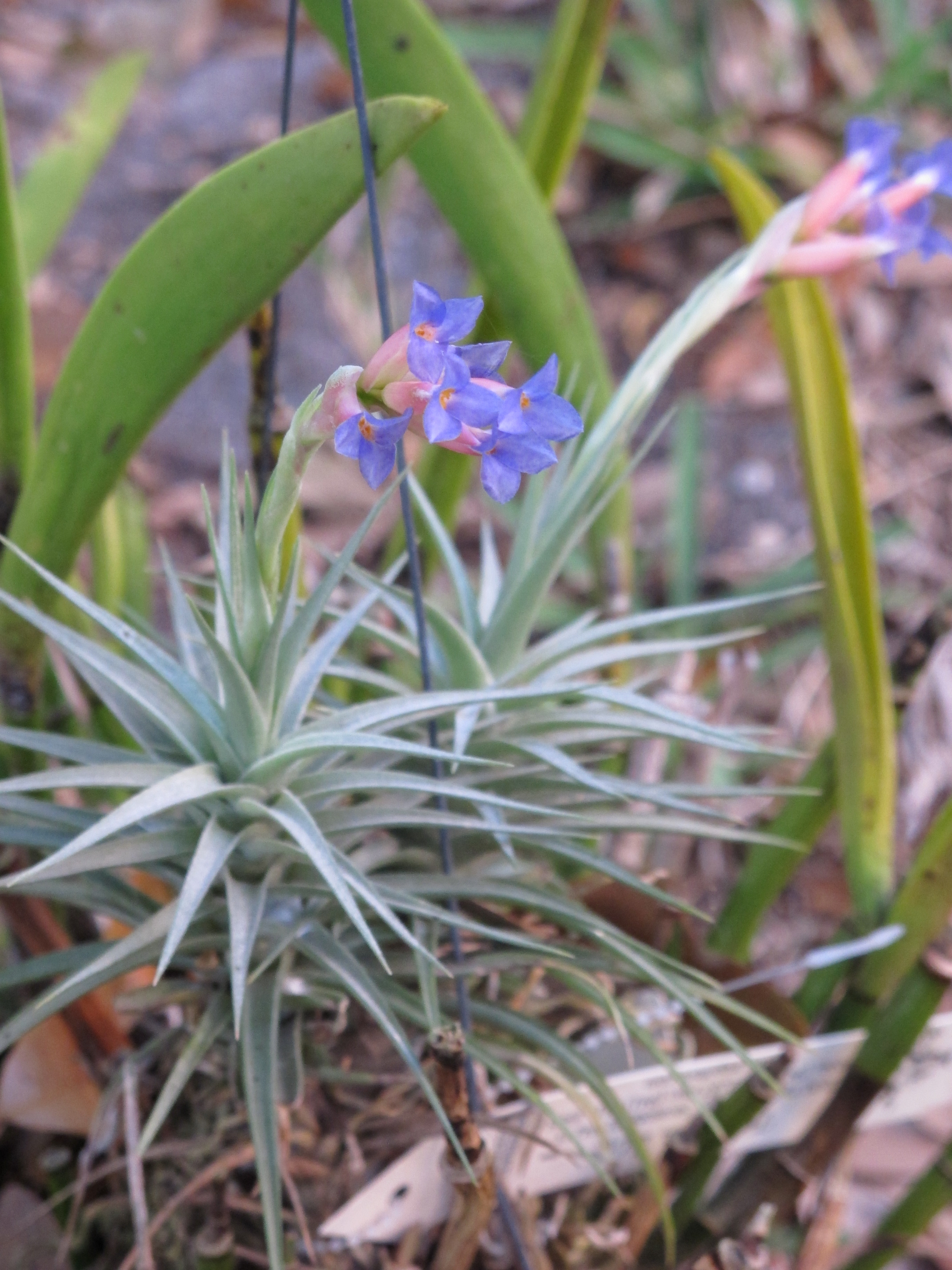 cultivated, South Miami, Florida, USA.